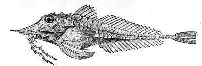 Armored searobin, Peristediidae sp. Matches illustrations of Peristedion miniatum